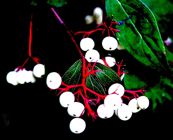 Fruit of Gray Twig Dogwood, in Minnesota.